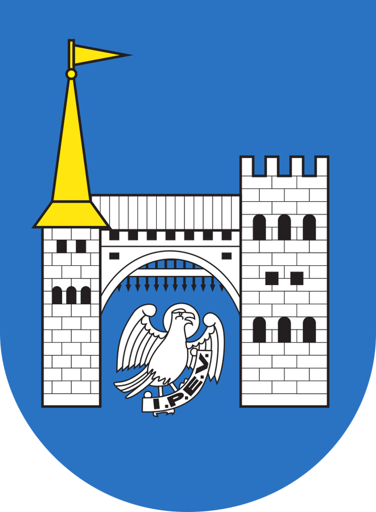 Coat of arms of the former city of Kuressaare, Estonia.